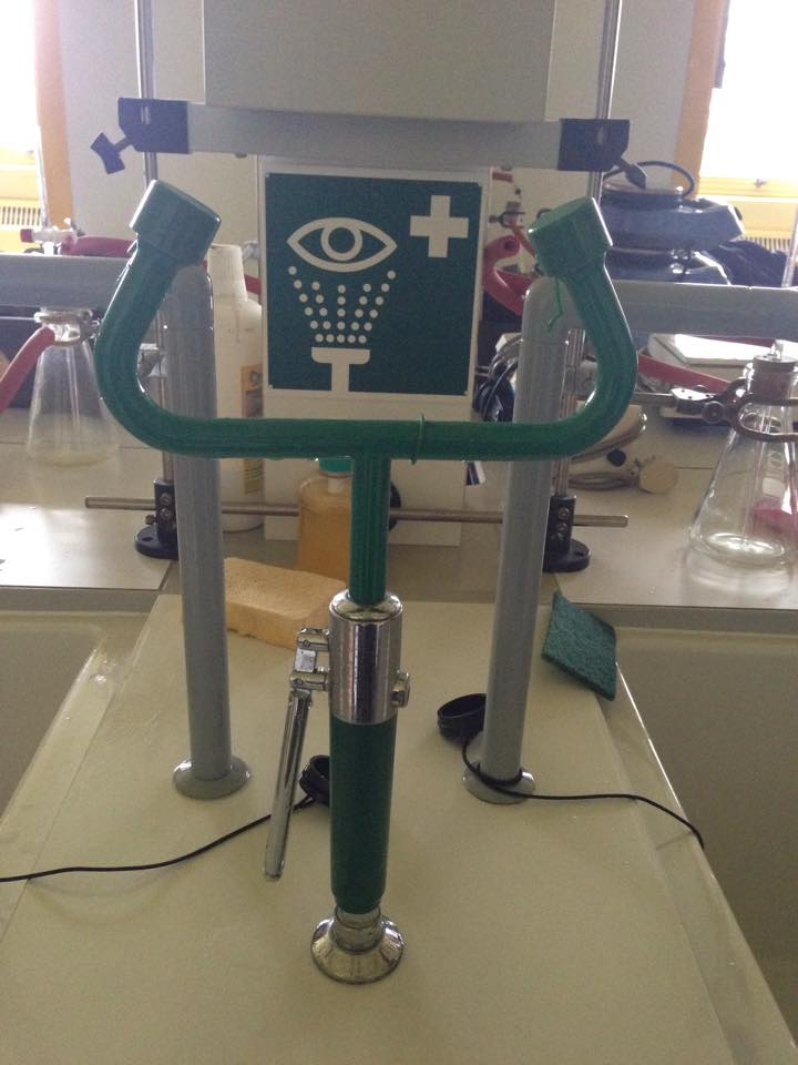 Emergency eyewash.